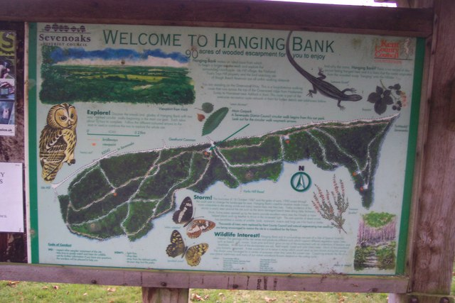 Hanging Bank Information Board This board shows the paths and track to Walk in Stubbs Wood and Brockhill Wood. '90 Acres of wooded escarpment'. Seen on the edge of the carpark on Yorks Hill Road, near Goathurst Common.